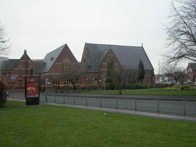 Besses URC Imposing Victorian United Reformed Church at junction of Bury Old & New Roads. For details